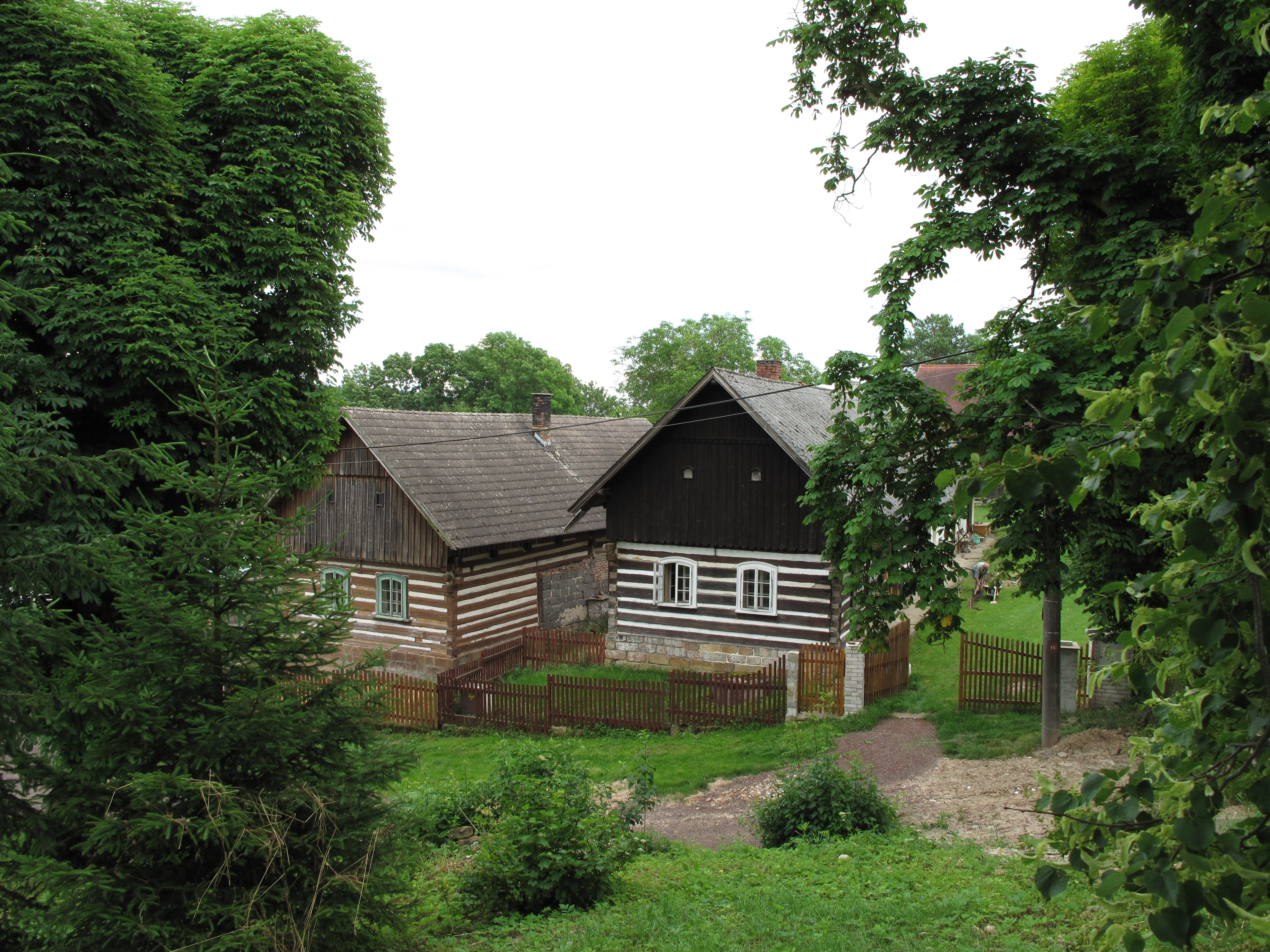 Log cabins in Dřevěnice village, Jičín District, Czech Republic.